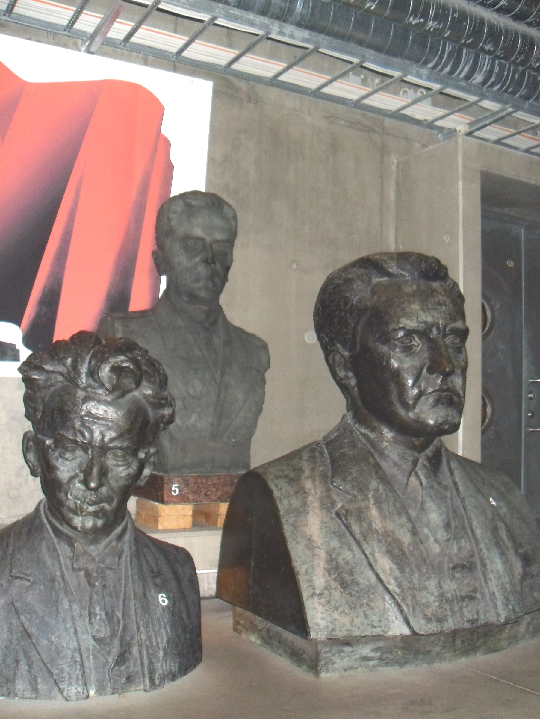 From left to right: Busts of Hans Pöögelmann (with the nr. 6), Lembit Pärn (nr. 5) and Jaan Anvelt (nr. 4) at the Occupations Museum of Tallinn (Toompea 8), Estonia. The Museum of Occupation and of Fight for Freedom (Toompea 8, Tallinn) was opened in summer 2003 and is the first of Estonia dedicated to the 1939-1991 time period, during which Estonia was occupied briefly by the Germans, and for a longer time by the Soviet Union. Hans Pöögelmann (1875-1938) was a high-ranking official among the communists of Estonia. He worked in the USSR and was executed there. In 1961, his statue was placed in a green between Imanta (A.Lauteri) and Lembitu streets. Lembit Pärn (1903-1974) was a general in the Red Army. He commanded the Estonian Rifle Corps during WWII. Erected in 1985, his monument was located in Tallinn on Gonsior St. nr. 38 (known as Lomonossov st. at the time), situated in front of the Kandriorg German High School. Jaan Anvelt (1884-1937) was one of the top figures in the ranks of the Estonian communists. He worked in the USSR and was put to death there. His statue was located in a Tallin square where Gonsior street and V.Reiman street intersect (which were previously known as M.Lomonossov street and J.Anvelt street).